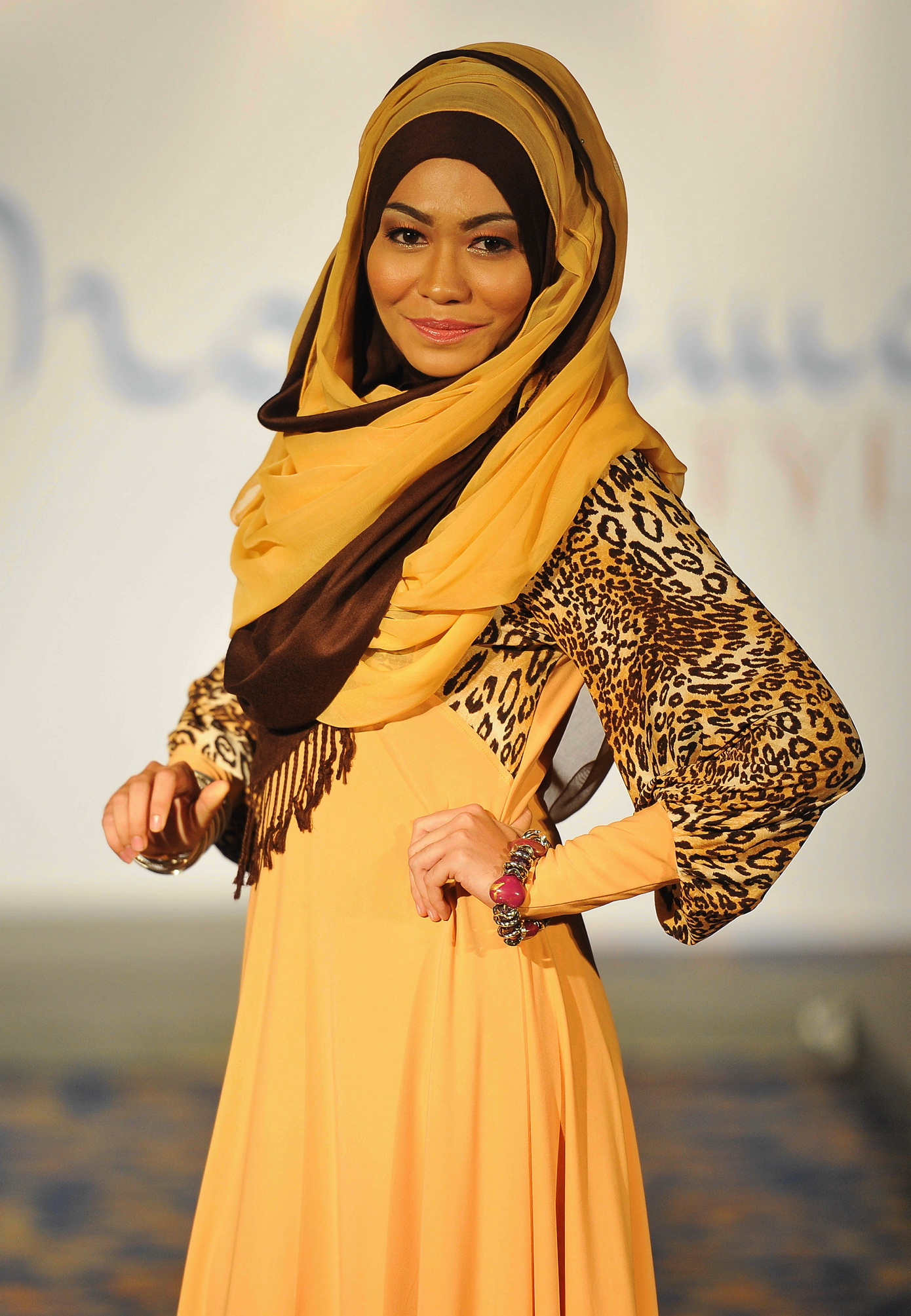 Kuala Lumpur,14/10/2012. Moslema in style fashion show at PWTC. (repoter sophia) Pic Firdaus Latif